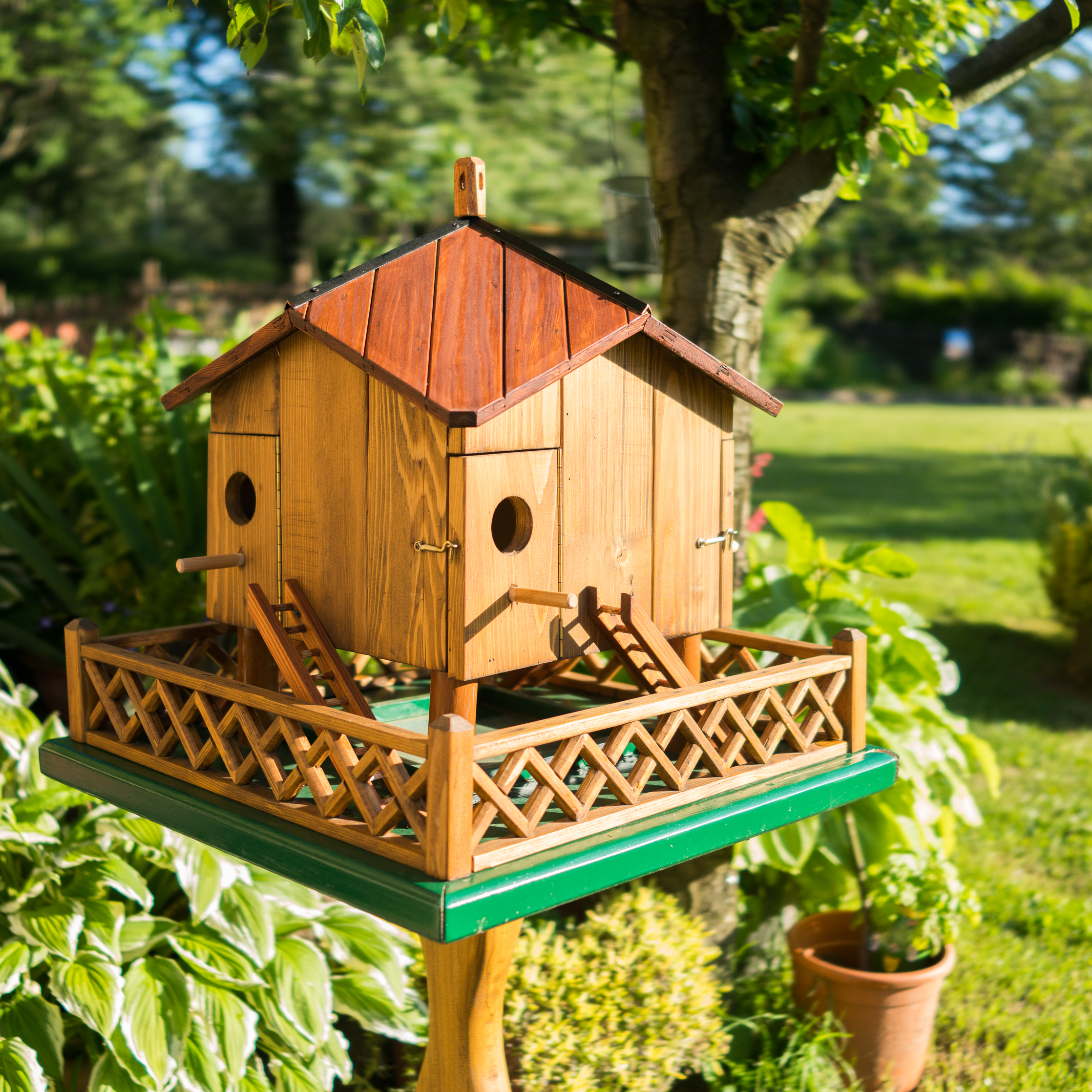 This is a bird house in a yard in Esino Lario.